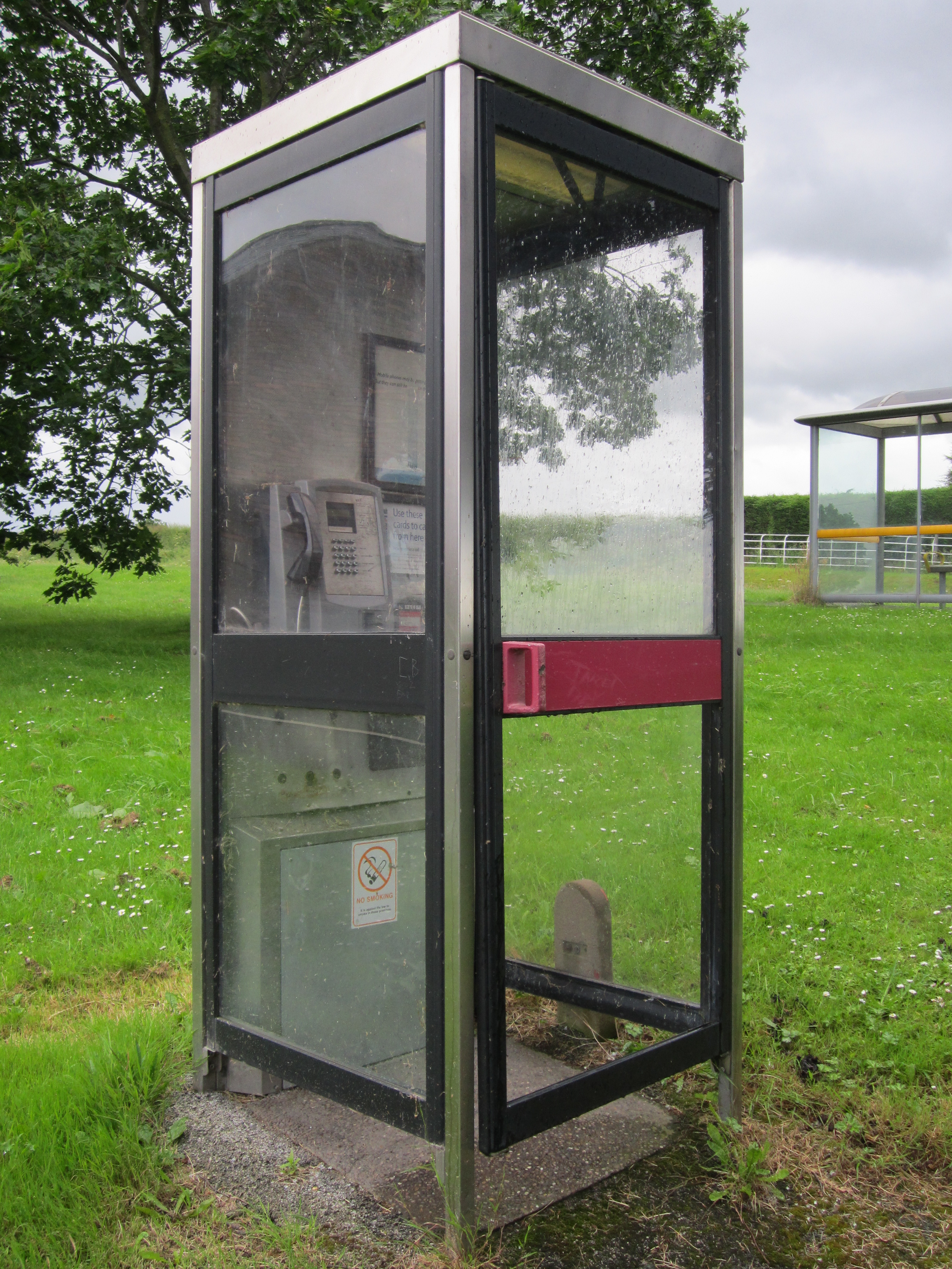 Telephone kiosk at Hapsford, Cheshire, England.